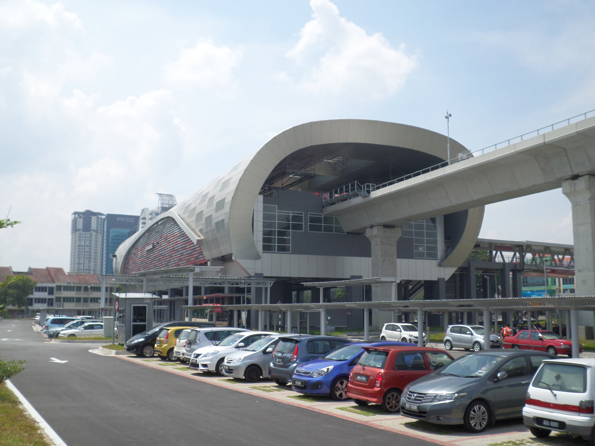 Taman Perindustrian Puchong LRT Station, Puchong, Petaling, Selangor, Malaysia